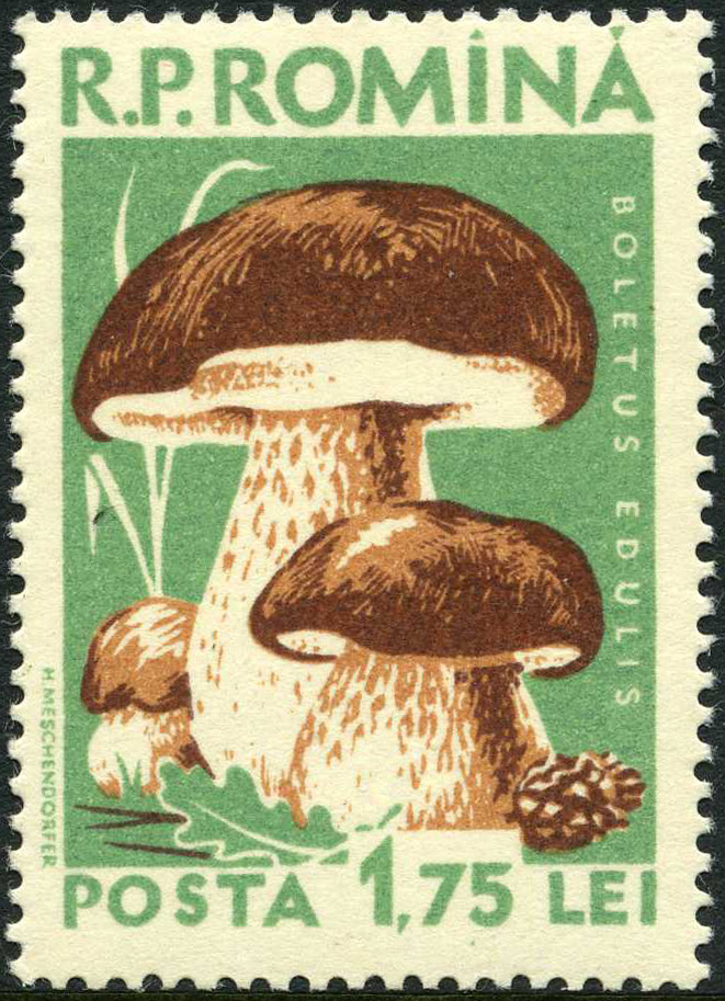 Romanian stamp, 1958, series of mushrooms, Boletus edulis